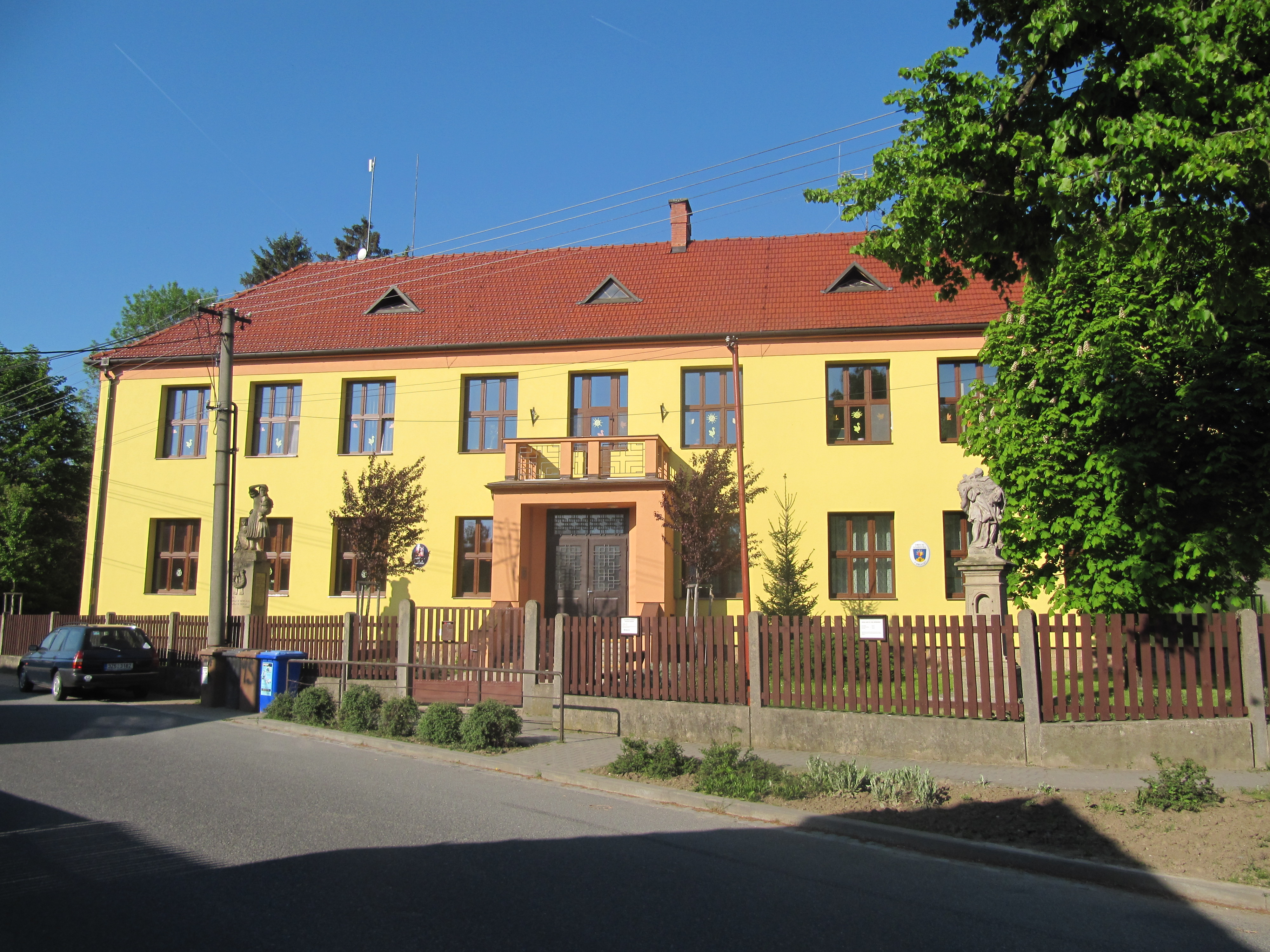 Břestek in Uherské Hradiště District, Czech Republic. Kindergarten.